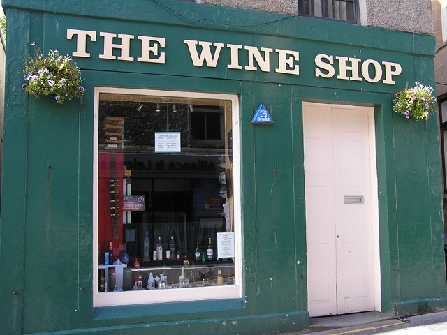 The Wine Shop